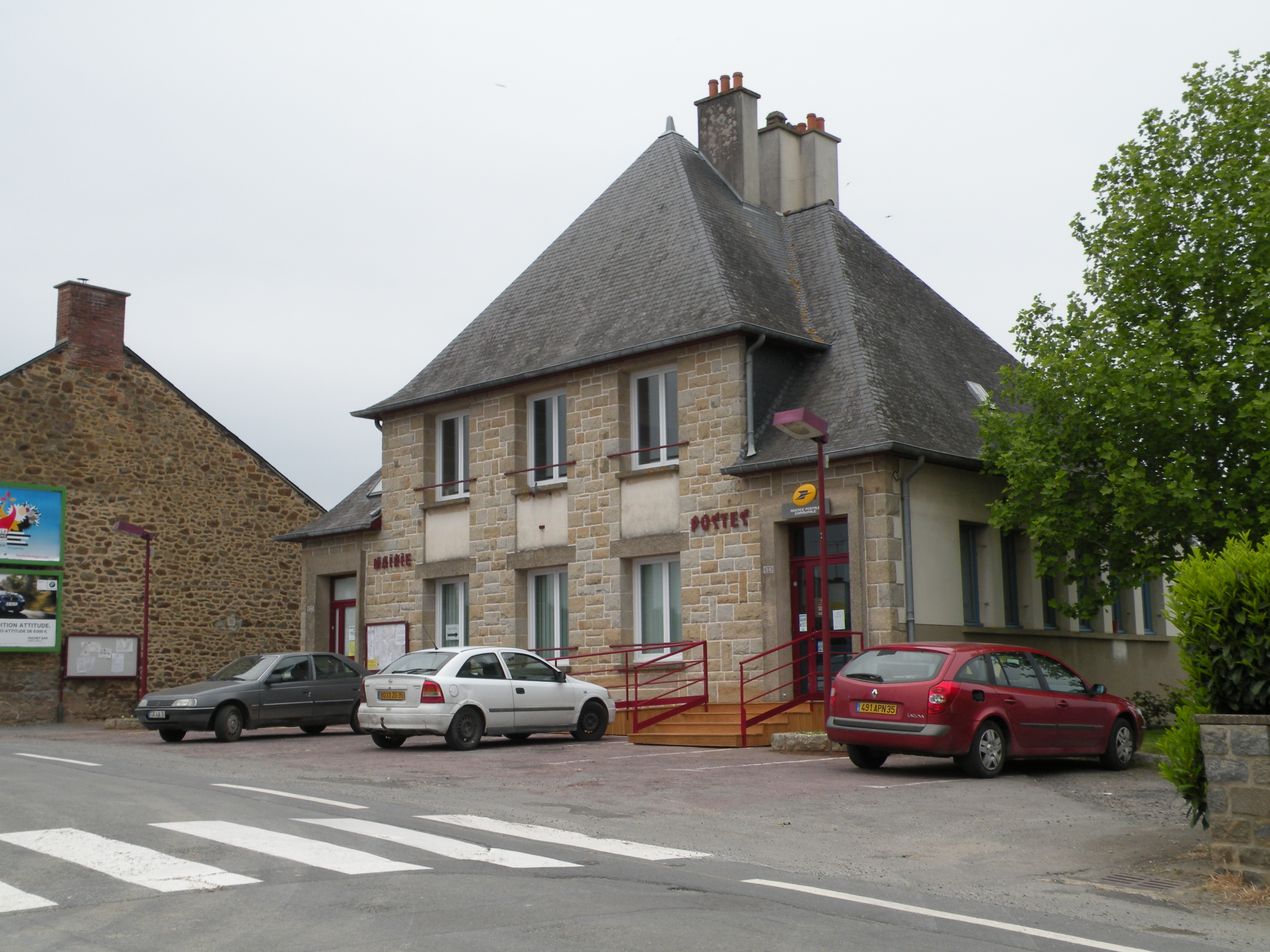 Town hall and post office of Guipel.